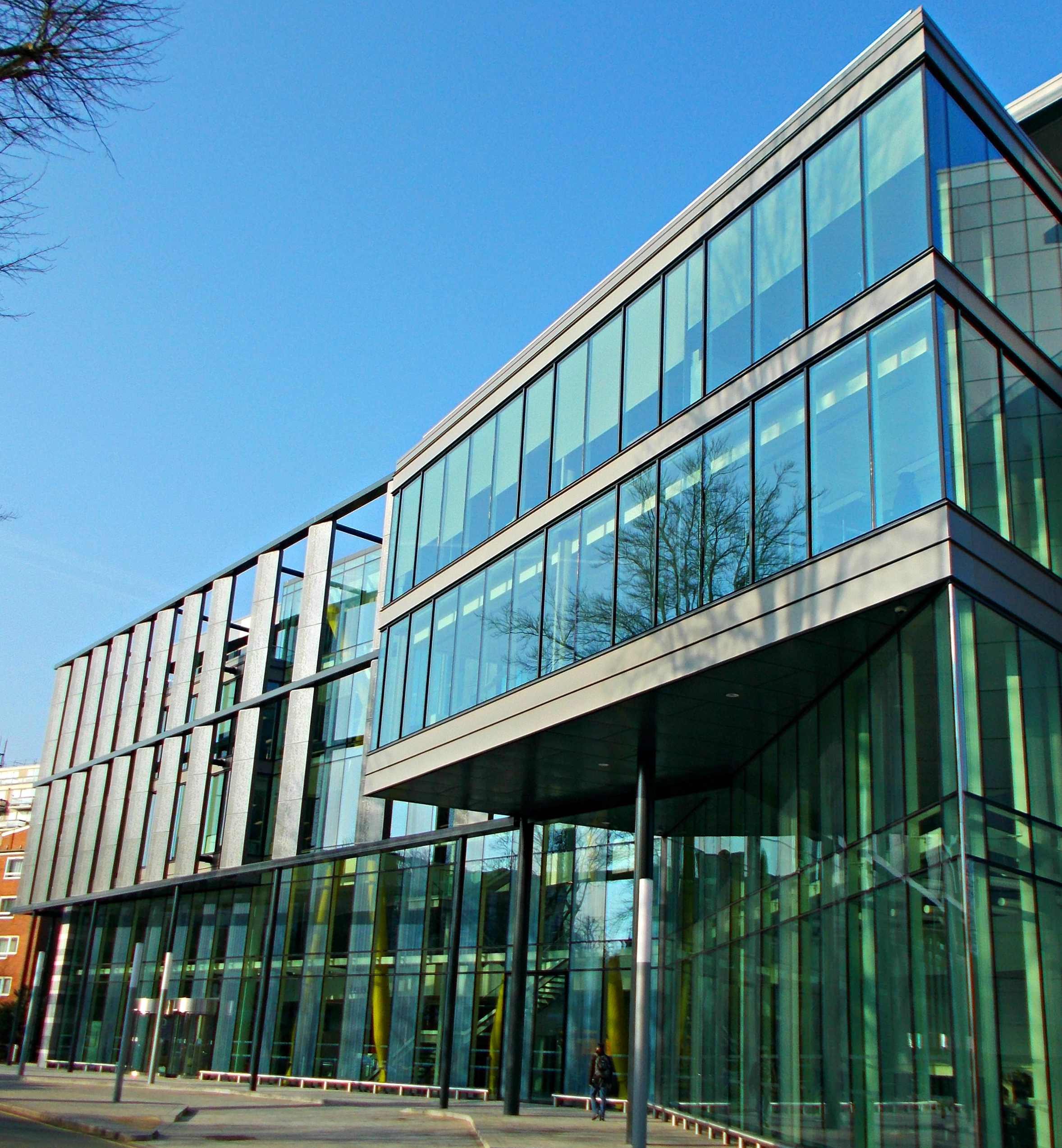 The world HQ of Subsea 7 in Sutton, ten miles from central London